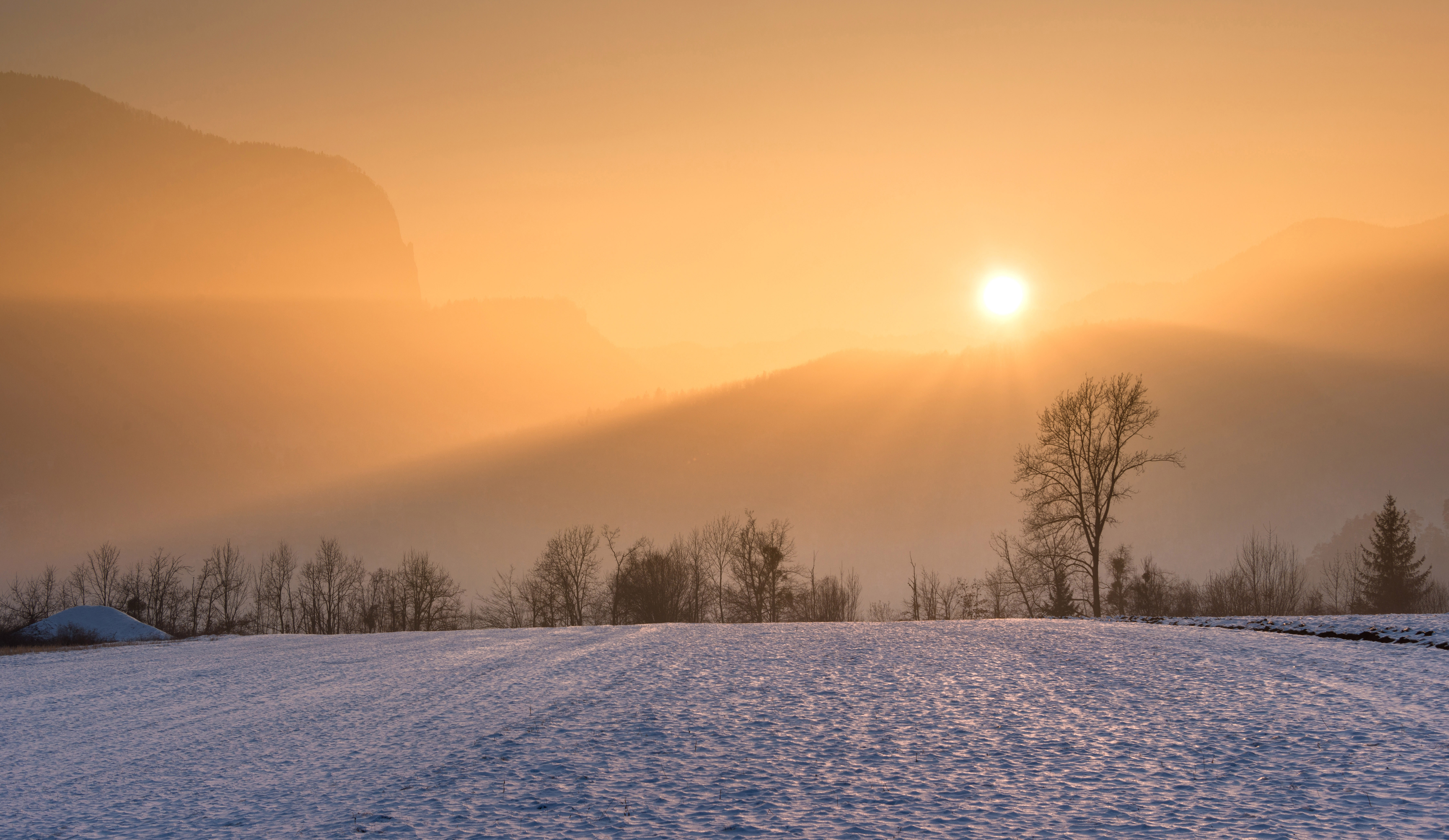 Sun shines through mist.